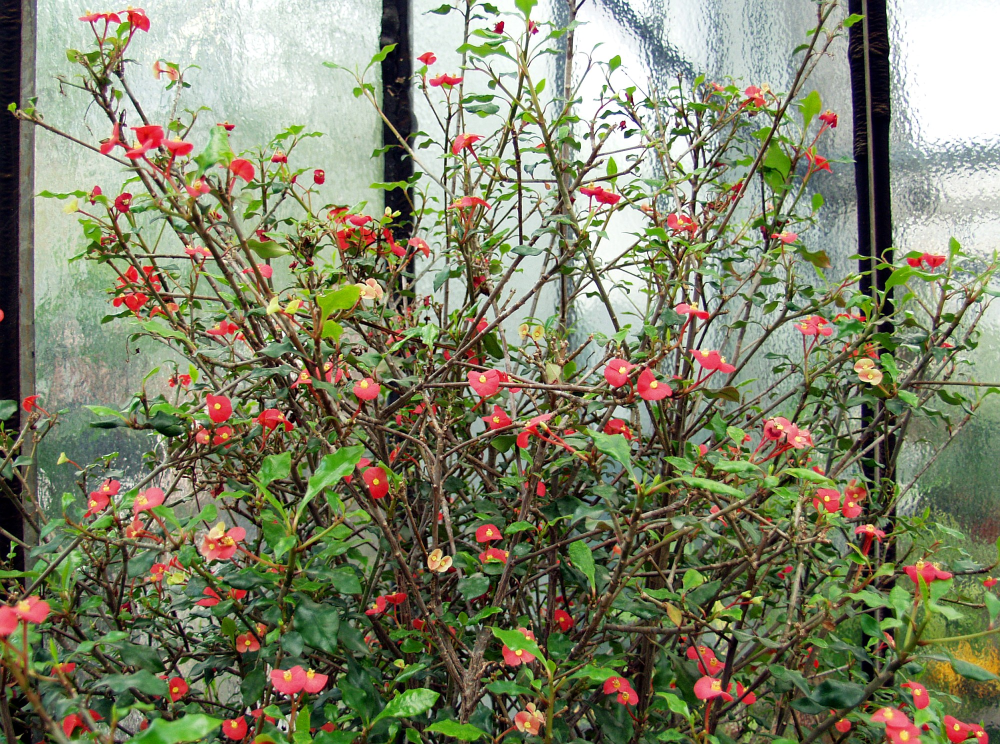 Euphorbia geroldii at Botanischer Garten Bonn